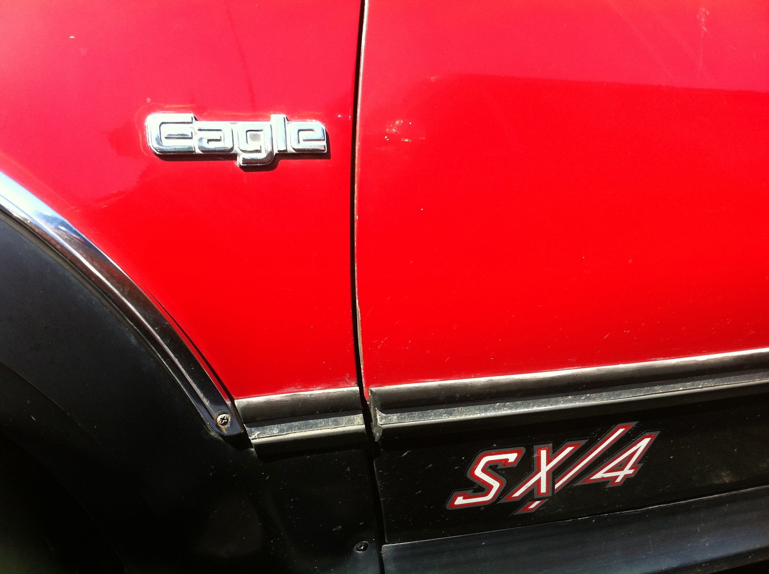 Detail of the name badges on a Eagle SX/4 liftback, built by American Motors Corporation (AMC), a sub-compact all-wheel-drive "sporty" vehicle.